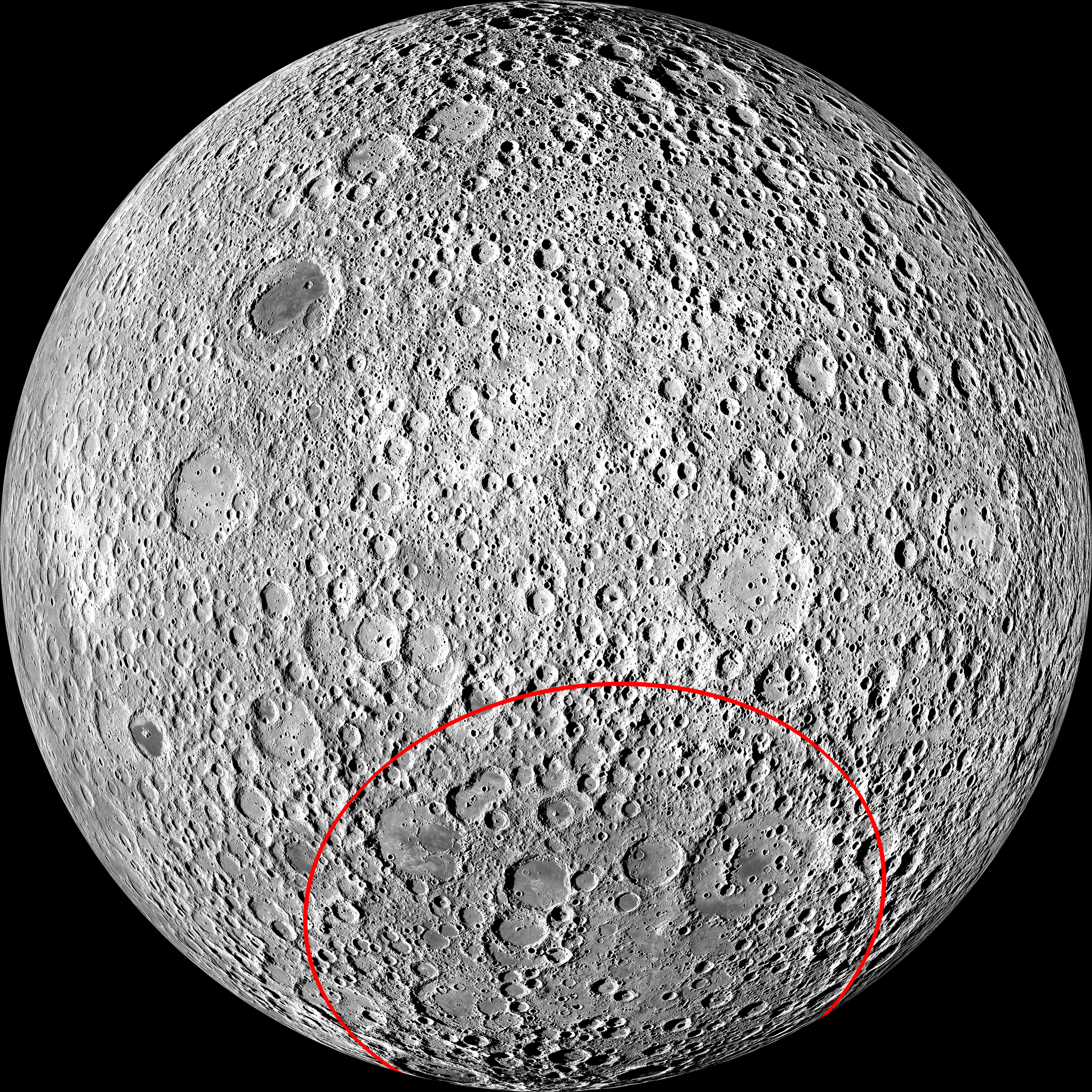 Outline of South Pole–Aitken basin on the image of far side of the Moon. Based on mosaic of images by Lunar Reconnaissance Orbiter file:Moon farside LRO 5000.jpg with somewhat increased brightness.